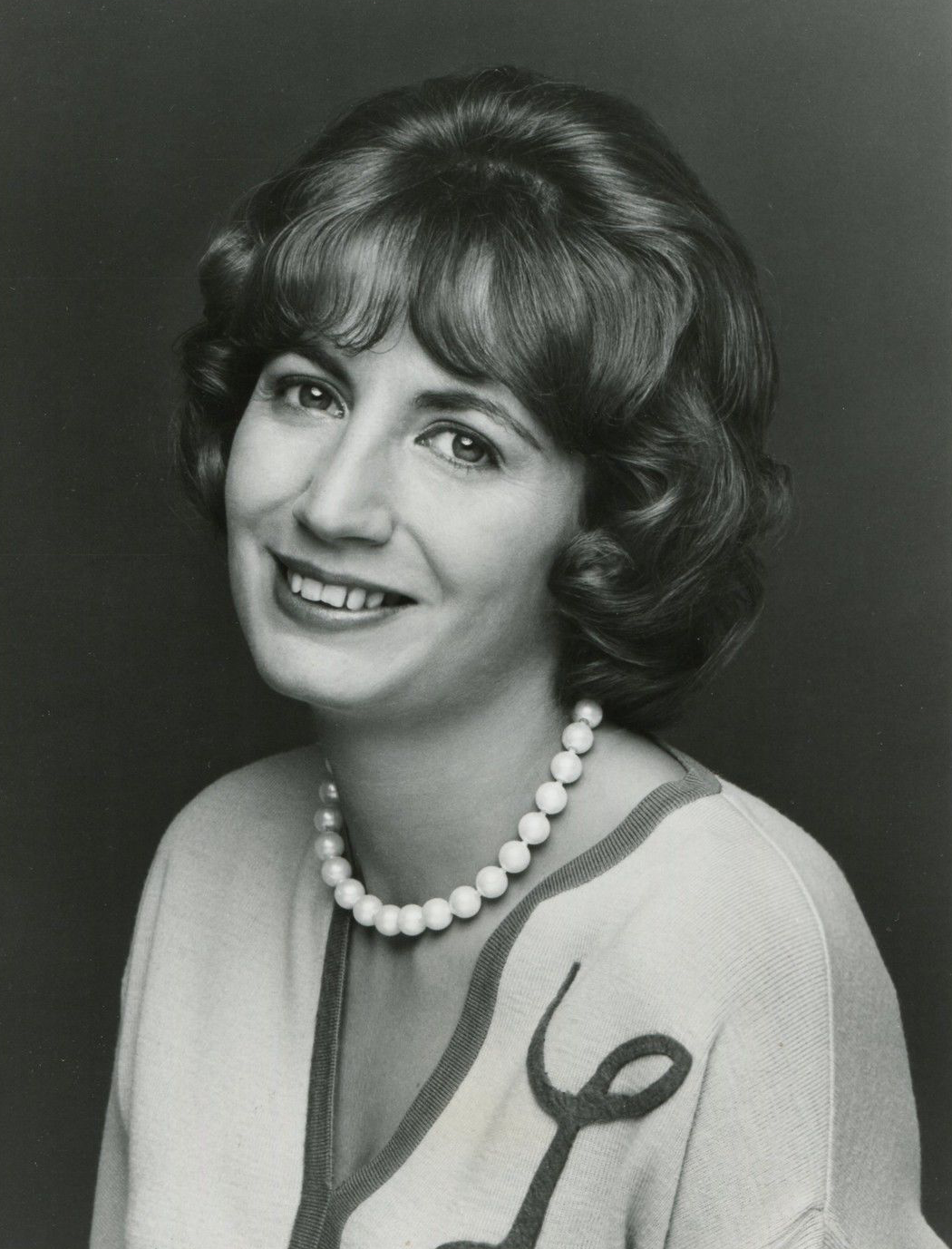 Penny Marshall publicity photo for Laverne & Shirley, dated January 13, 1976